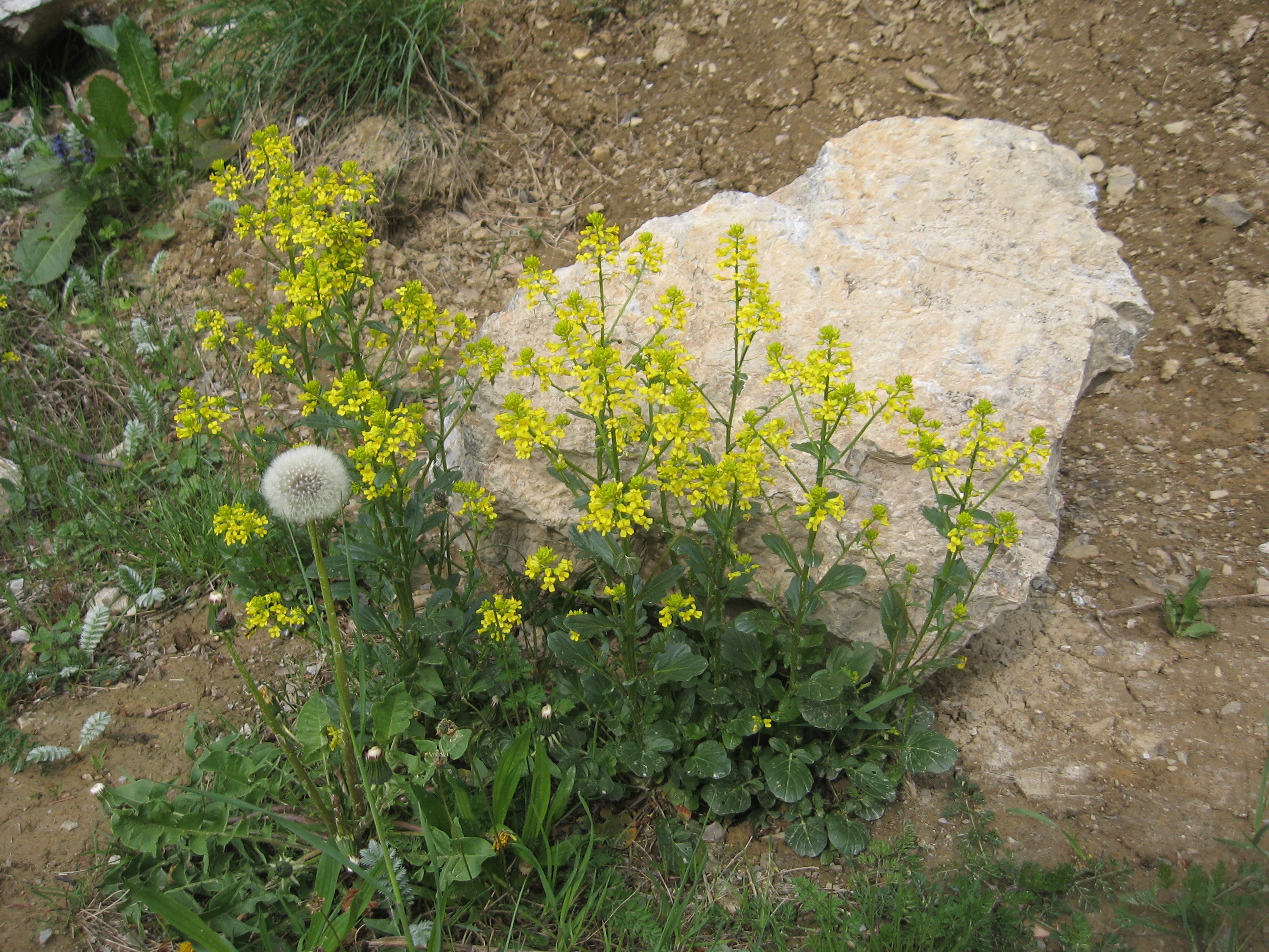 Barbarea vulgaris (Winterkresse) at Haltgraben in Frankenfels, Austria